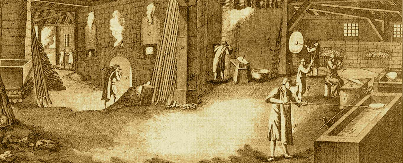 Glass Crownglass Production Glas Mondglas Produktion Origina work